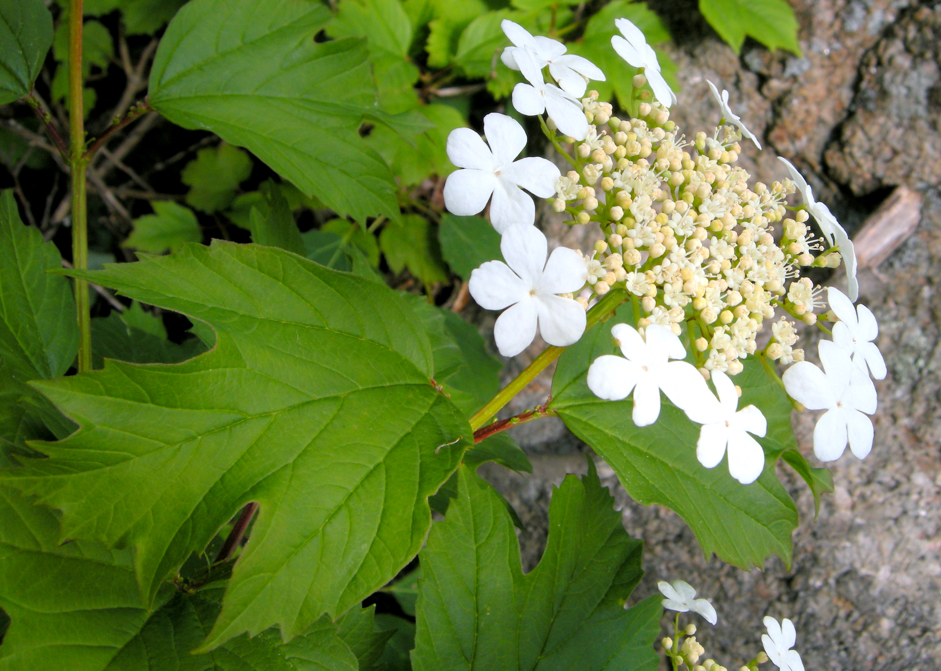 Guelder Rose - Viburnum opulus